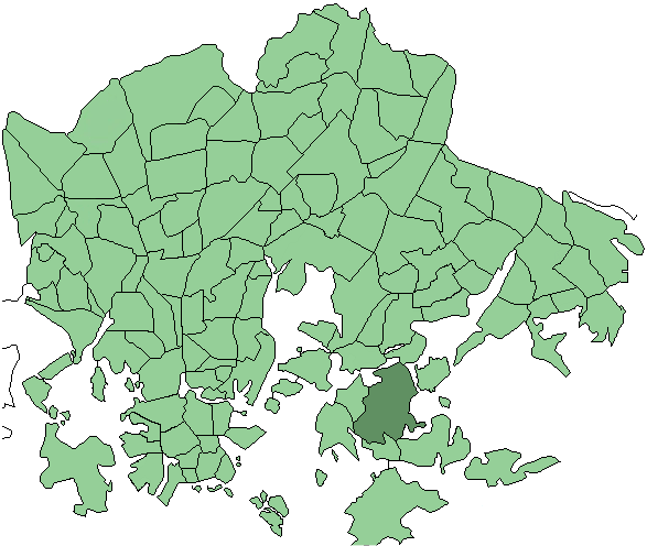 Districts of Helsinki, Yliskyla highlighted